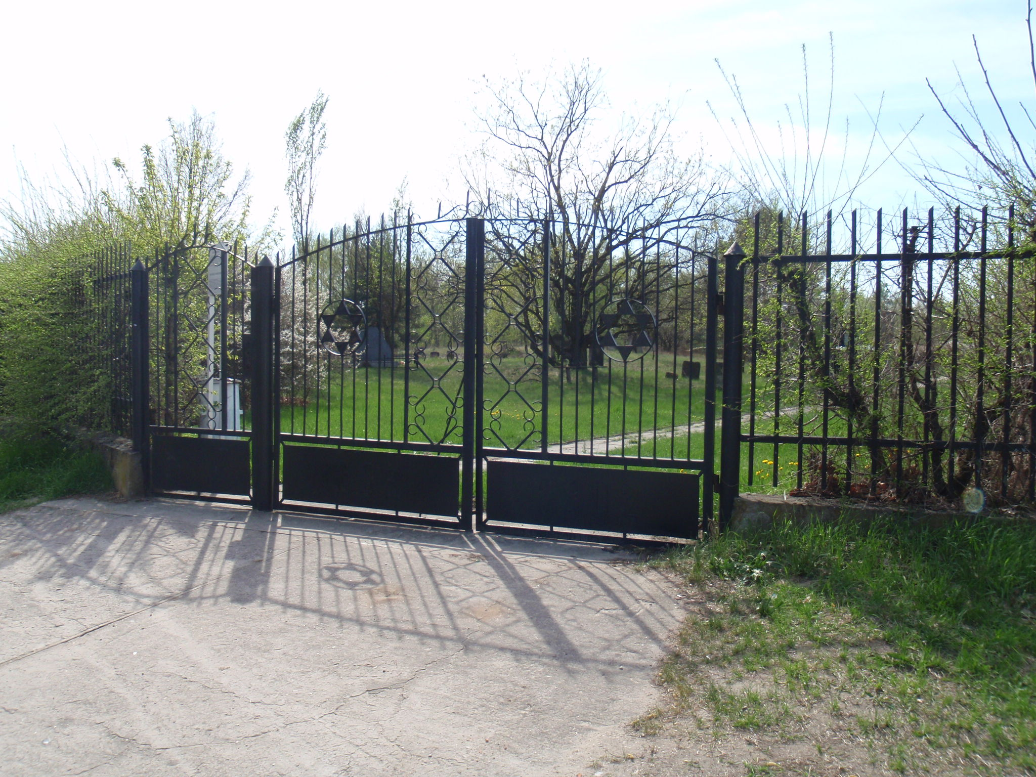 Jewish cemetery in Góra Kalwaria (Ger)